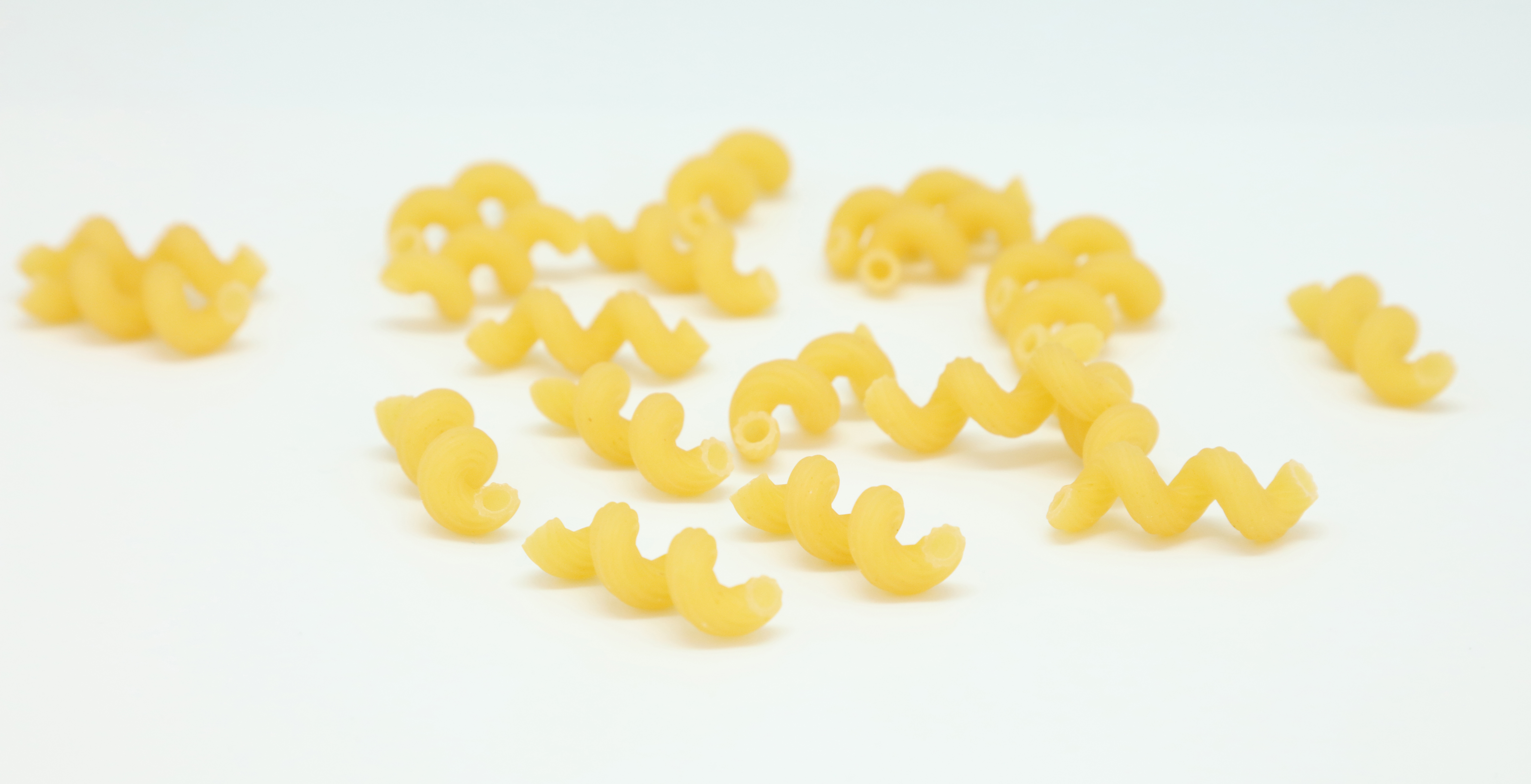 Cellentani pasta (Barilla brand); other names : double elbows, cavatappi, amori, spirali, or tortiglione